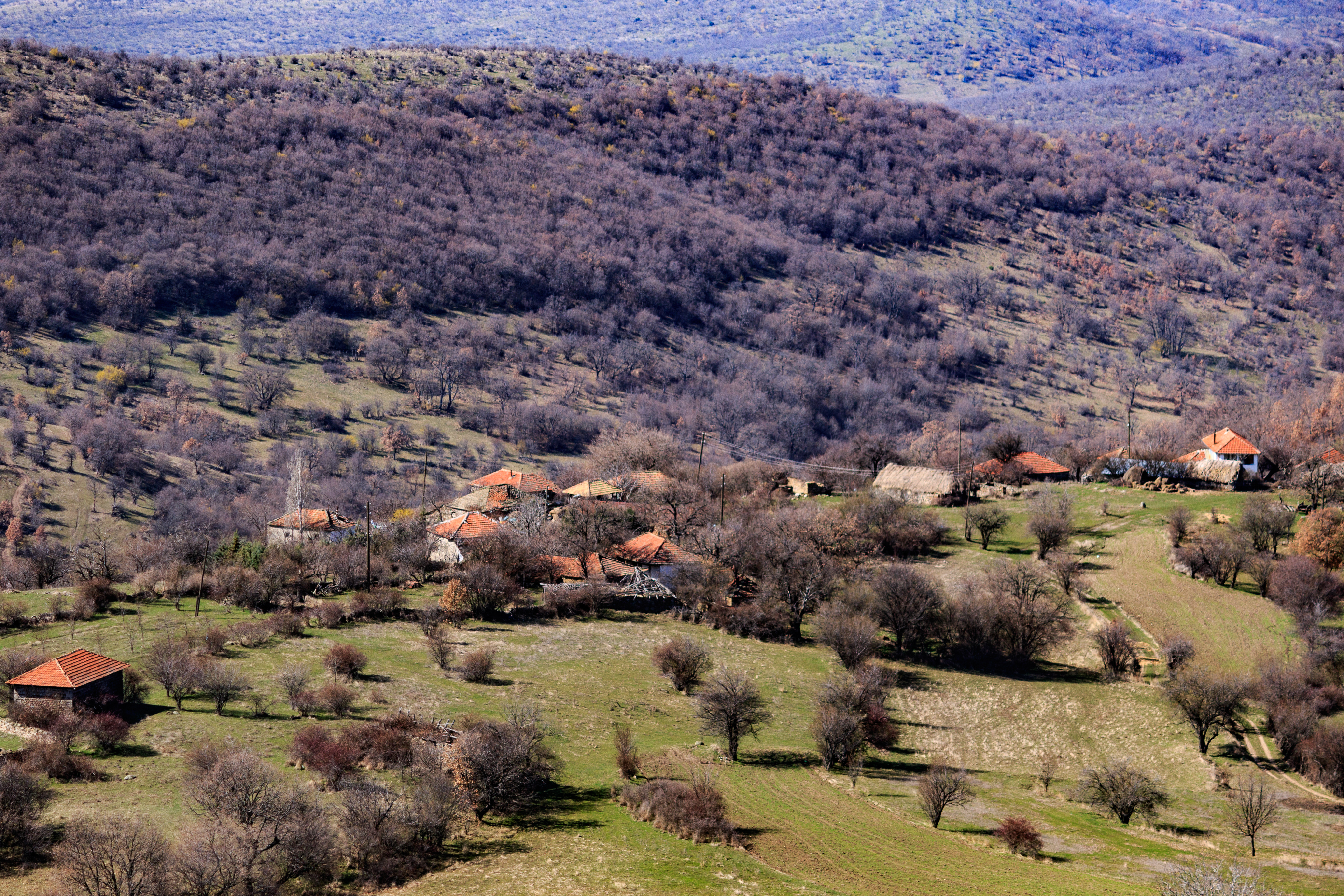 Panoramic view of a hamlet in the village of Kokino, Macedonia